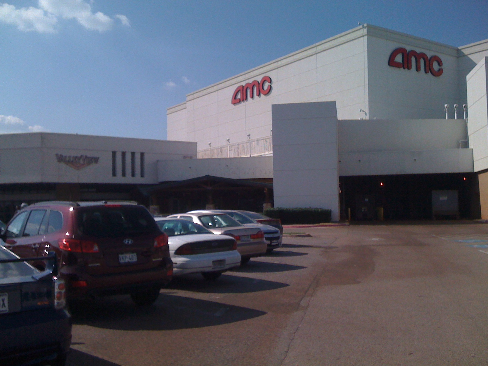 A view of the AMC 16 movie theater from the south side of Valley View Center in Dallas, Texas. Opened in 2004, it replaces the mall's original two-screen theater which closed in 1991 (and is now home to a radio station).